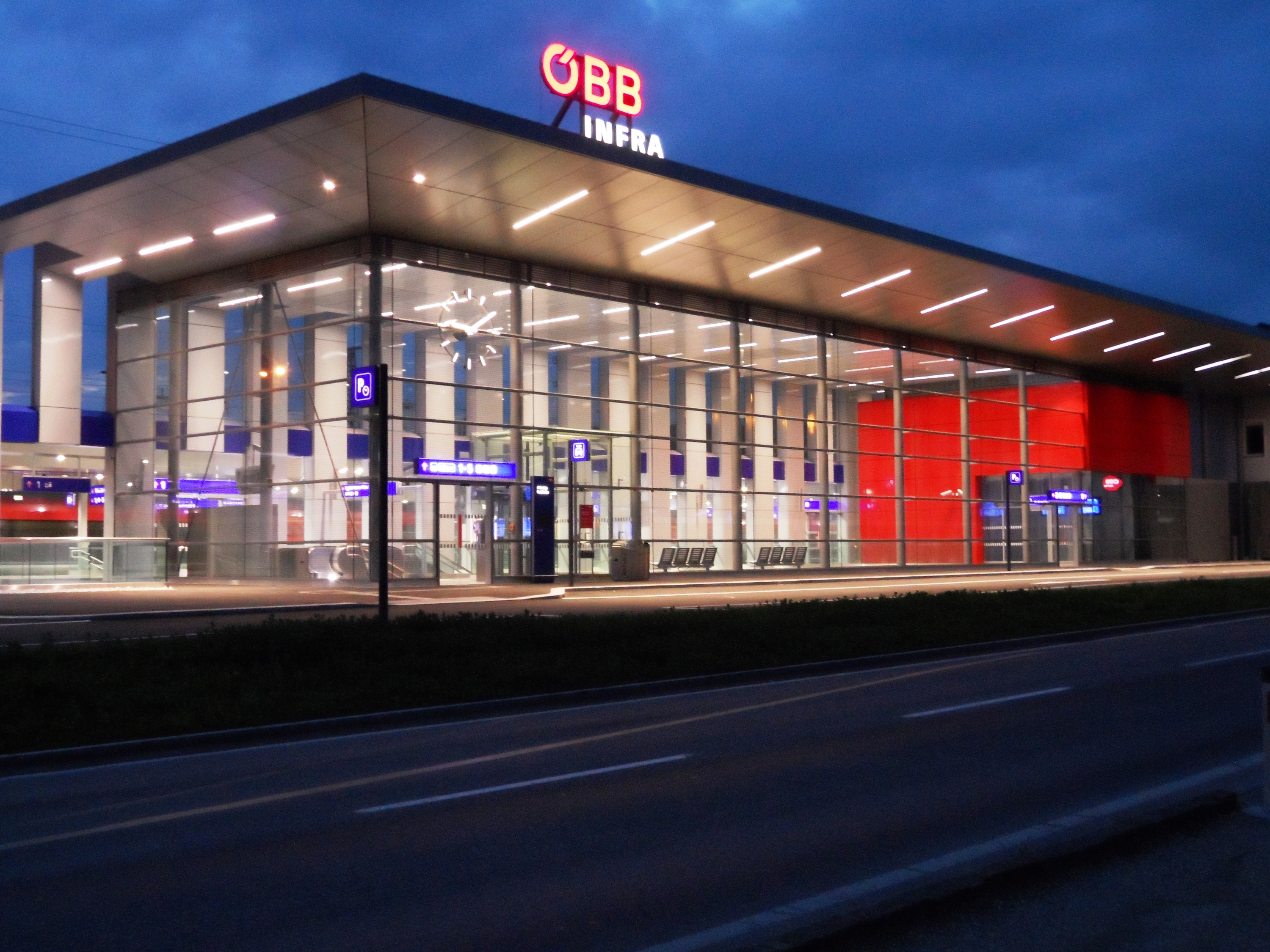 Train station Attnang-Puchheim in Upper Austria